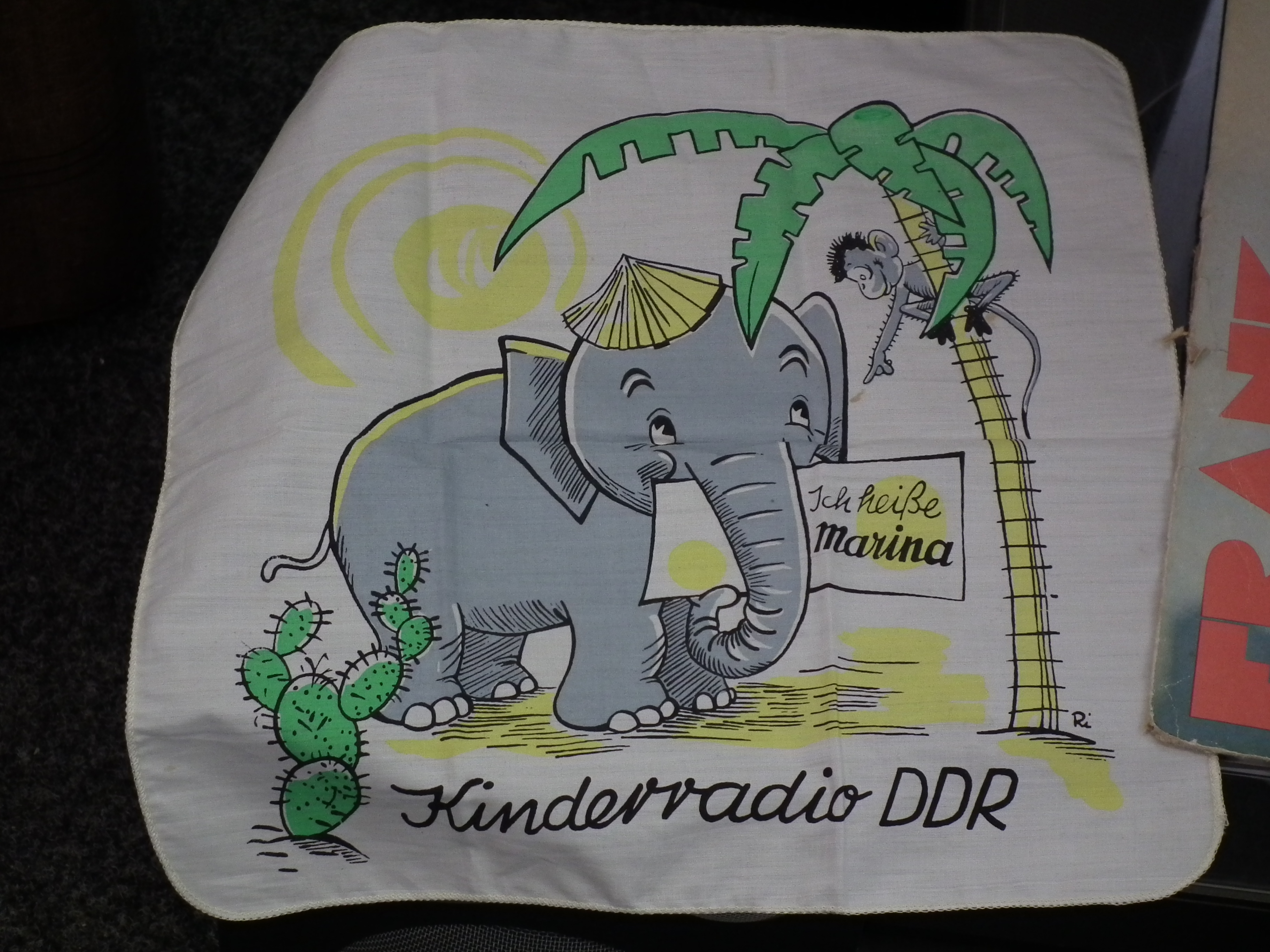 Radio for Childrens in GDR